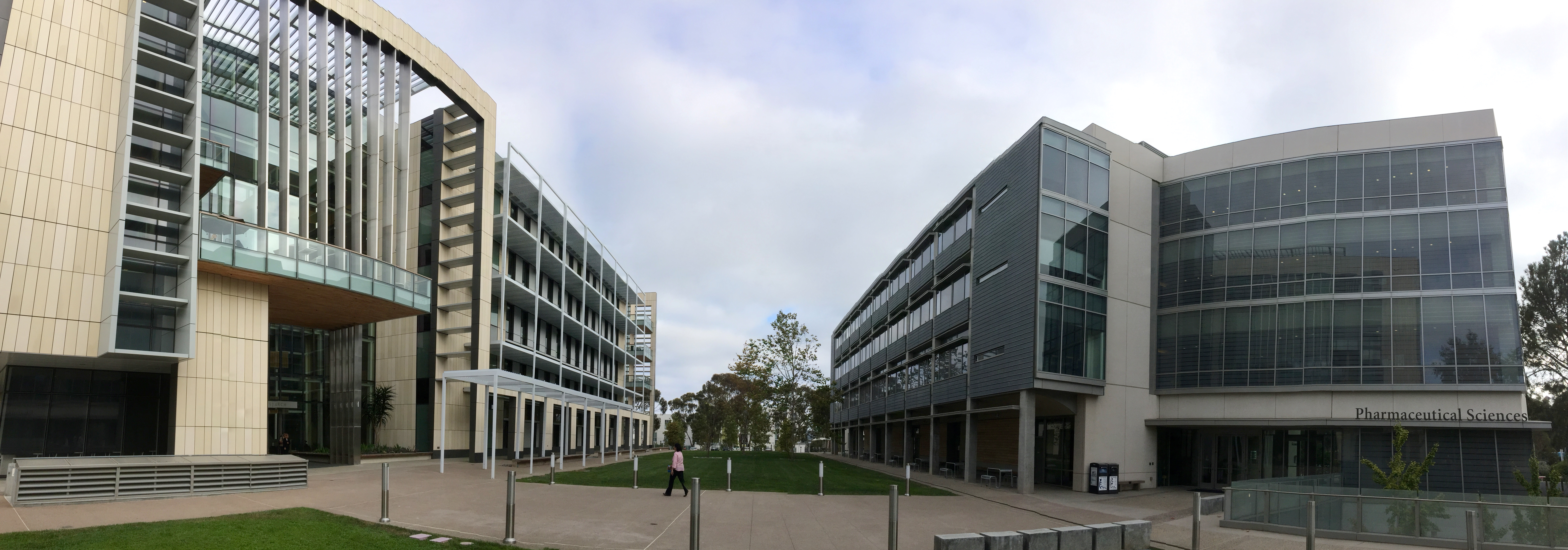 Looking south upon the academic mall of the School of Medicine at the University of California, San Diego. To the left is the Health Sciences Biomedical Research Facility II, and to the right is the Skaggs School of Pharmacy building.